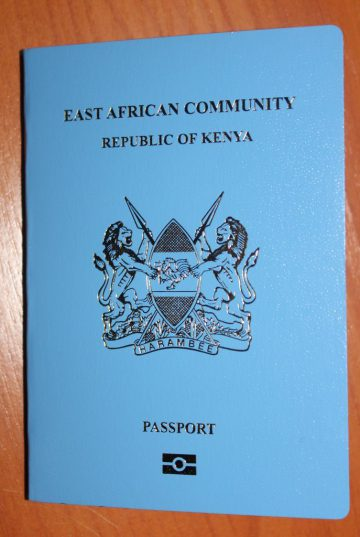 This photo of an expired Kenyan passport was taken by my friend Festus Wanjohi, and then emailed to me with the following text: Disclaimer : I Festus Wanjohi took this picture of my Kenyan passport and hereby authorize Eugene Efremov to use the image as he deems appropriate and on has therefore become available on public domain. Image:Wanjohi.jpg